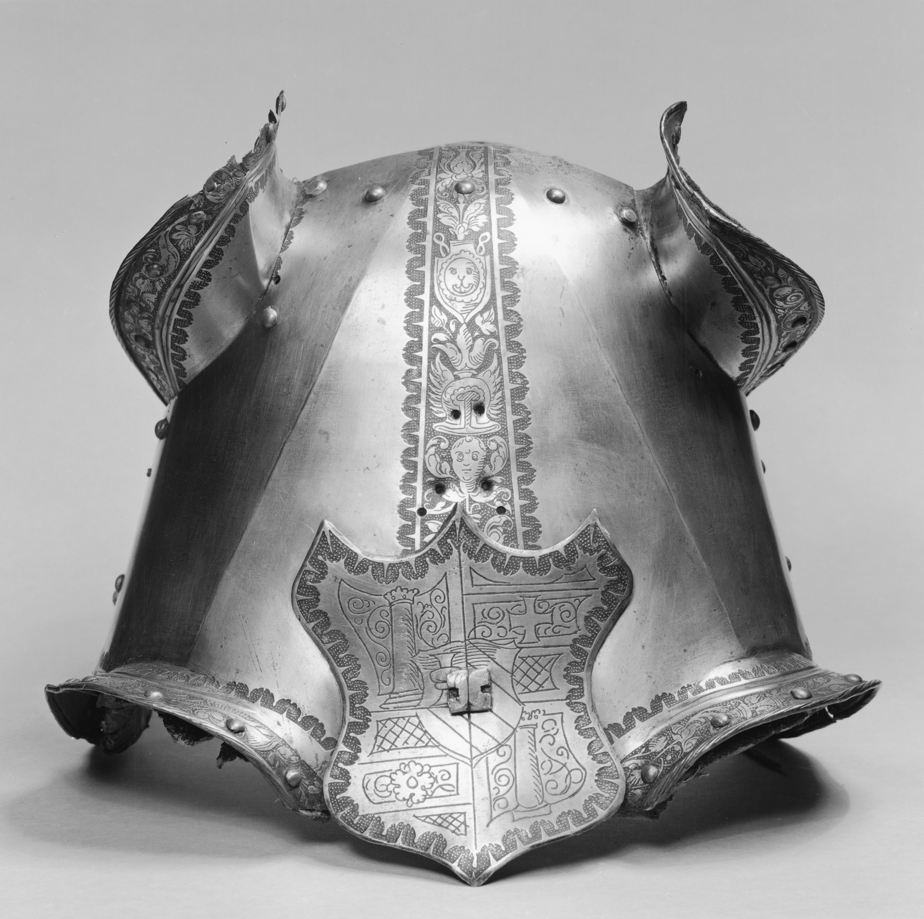 This half shaffron is from a garniture (complete set of various elements) of armor that originally numbered about 60 pieces made for Kaspar Baron Völs-Schenkenberg, captain of Emperor Ferdinand's guards. Dated 1560, it was surely commissioned for the baron's use in the great royal field tournament that Archduke Maximilian organized at Vienna in 1560 to honor his father, Emperor Ferdinand.